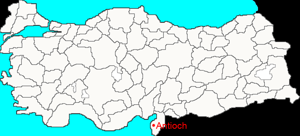 Location of Antioch, in present Turkey. Map with distinction between land and sea borders. Probably the best I've done so far. The svg was glitchy, and it got corrupted, so unfortunately I can't make a blank map now.